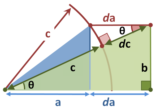 Increments for a differential derivation of Pythagorean theorem